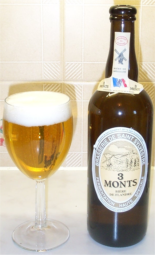 A bottle and full glass of the beer 3 Monts brewed in france by La Brasserie Saint-Sylvestre.